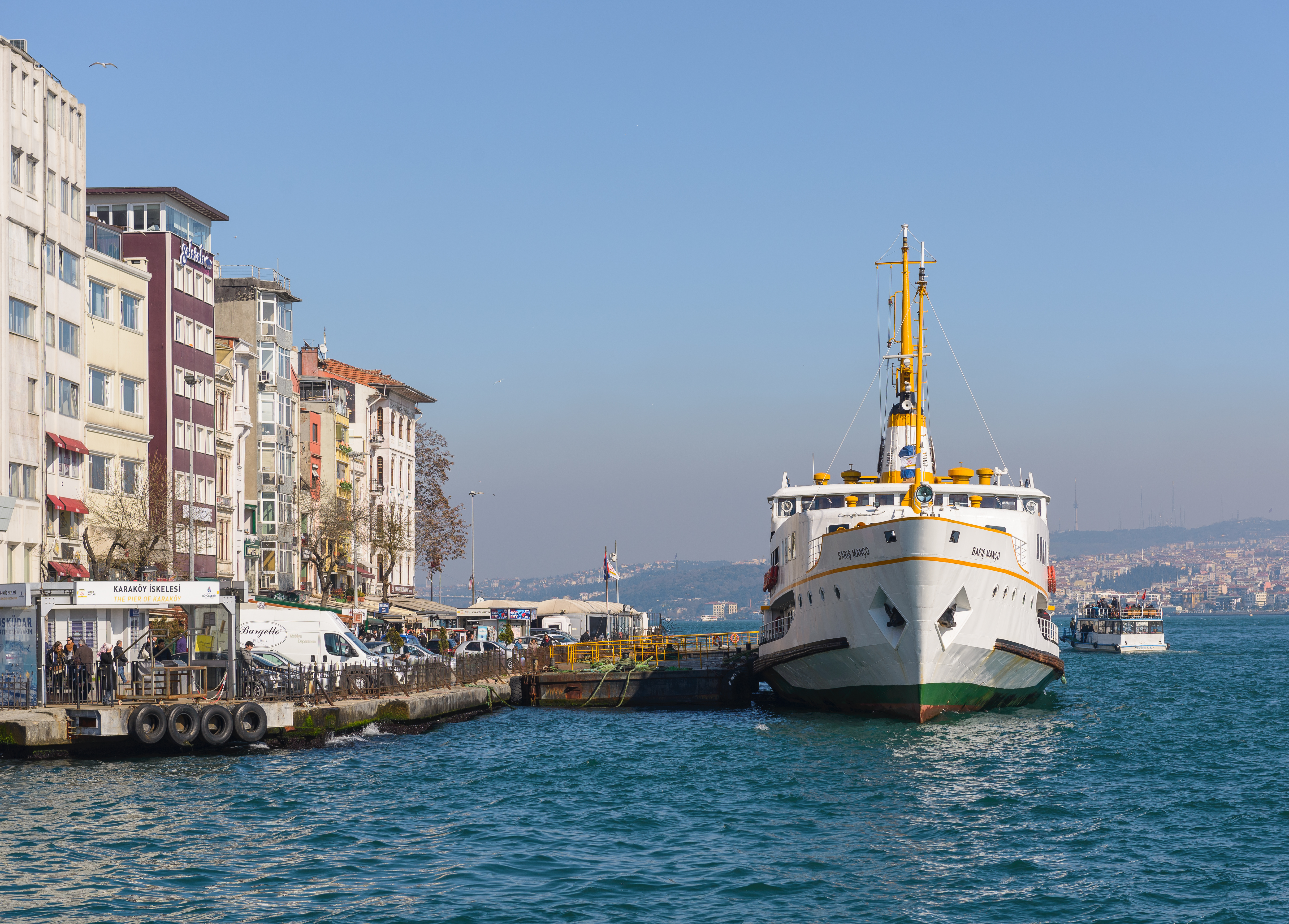 Barış Manço at Karaköy Iskelesi, Karaköy, Istanbul.